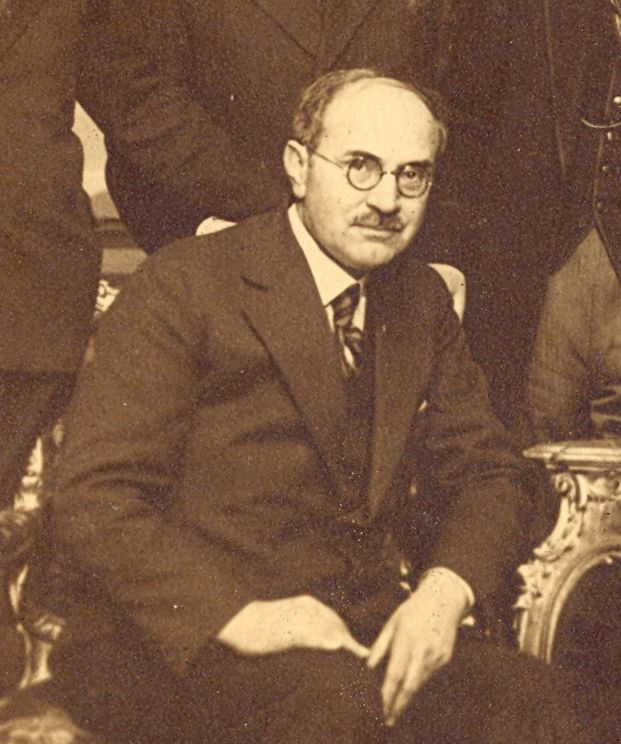 Bulgarian literary historian, folklorist and ethnographer Mihail_Arnaudov